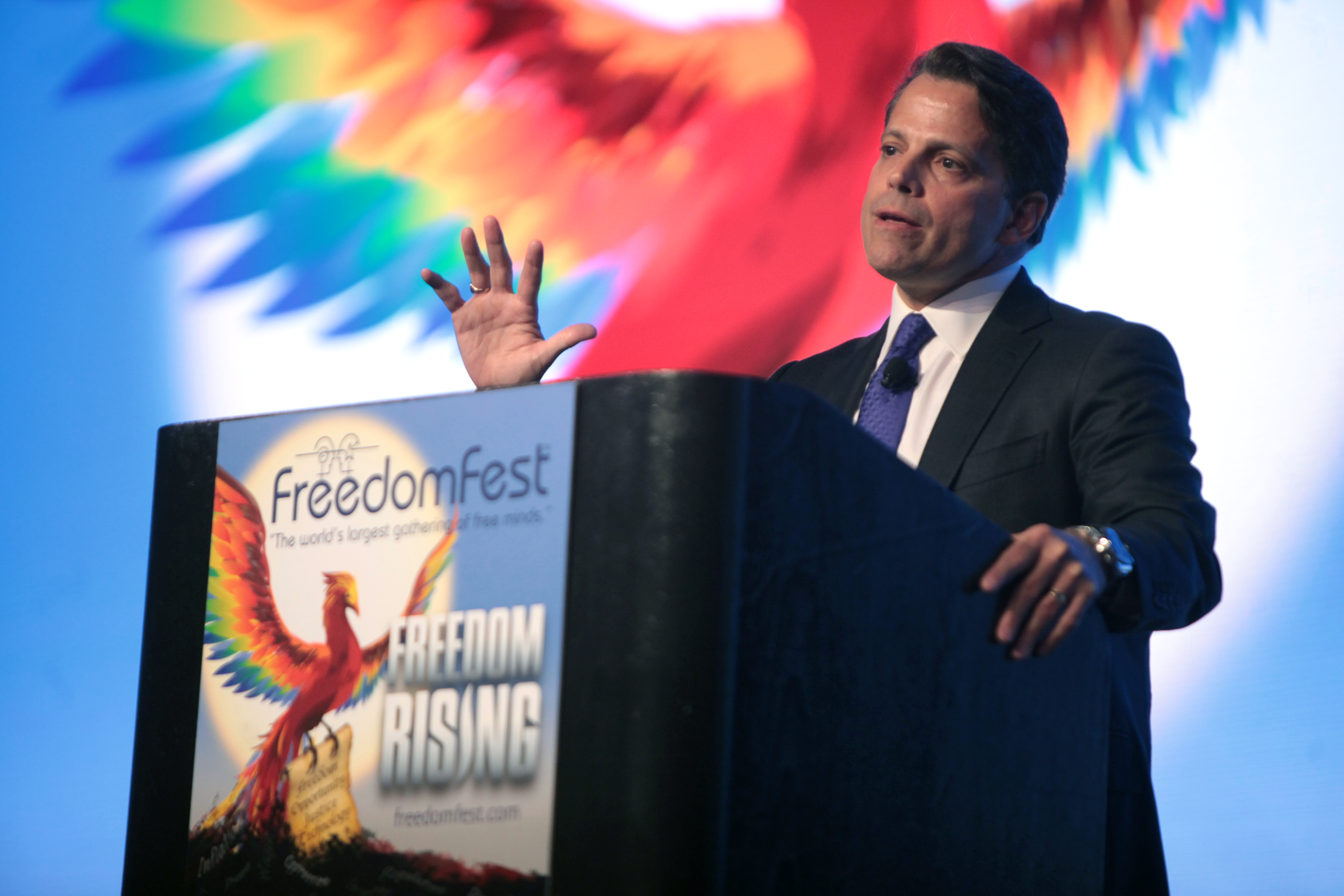 Anthony Scaramucci speaking at the 2016 FreedomFest at Planet Hollywood in Las Vegas, Nevada.